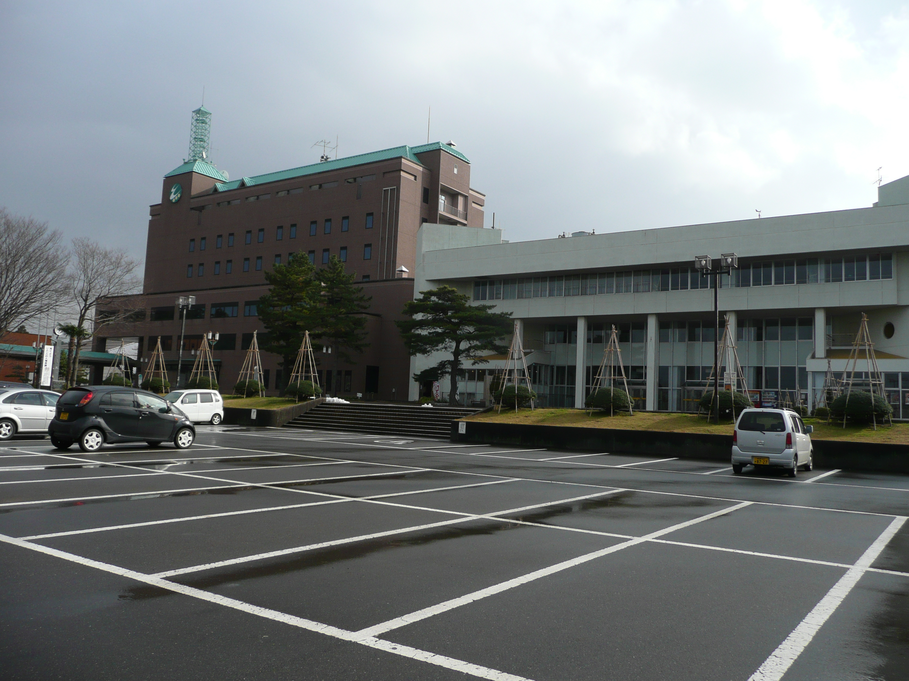 Itoigawa city hall/ 糸魚川市役所（正面）